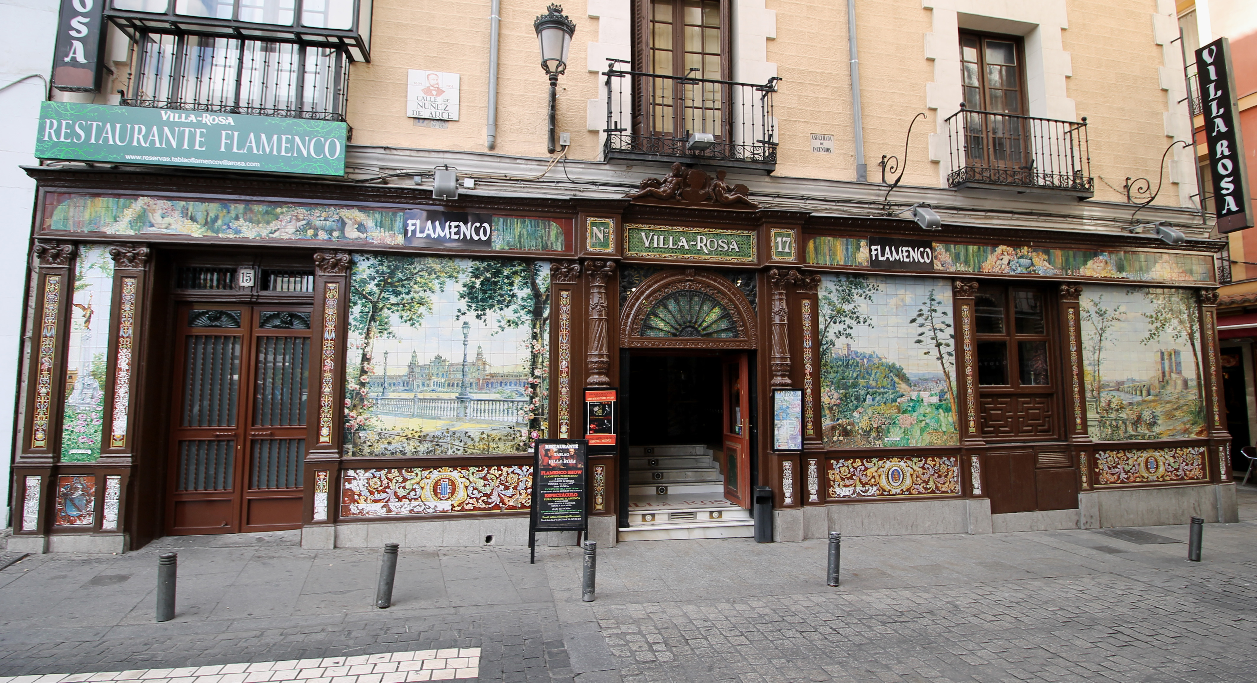 Façade of restaurant and tablao Villa-Rosa in Madrid (Spain).